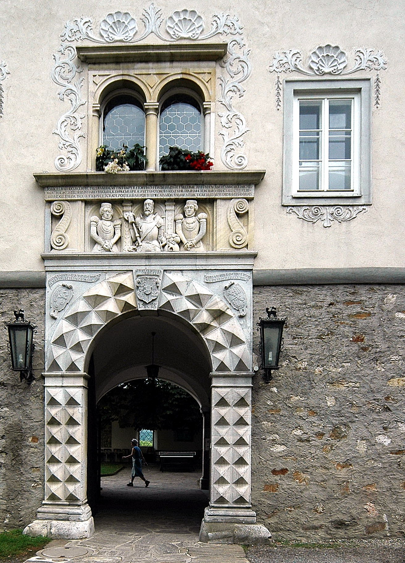 Renaissance portal of castle Wernberg on Klosterweg #2, municipality Wernberg, district Villach Land, Carinthia, Austria, EU